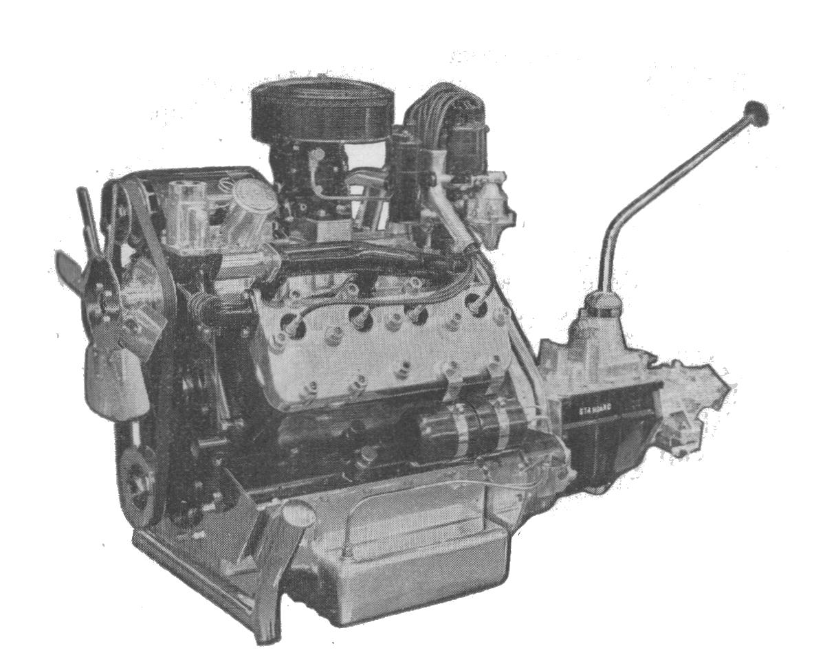 Standard 20hp V8 engine (Autocar Handbook, 13th ed, 1935).jpg